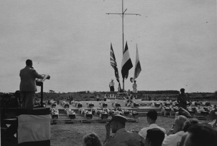 Speech by Wali Negara Sumatera Timur Dr. Mansoer during a funeral ceremony at the military cemetery